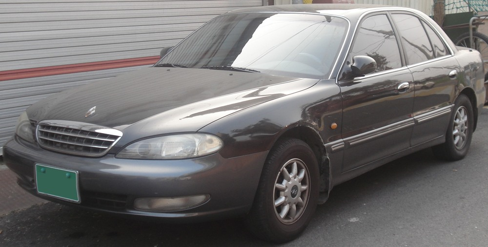 Hyundai Marcia